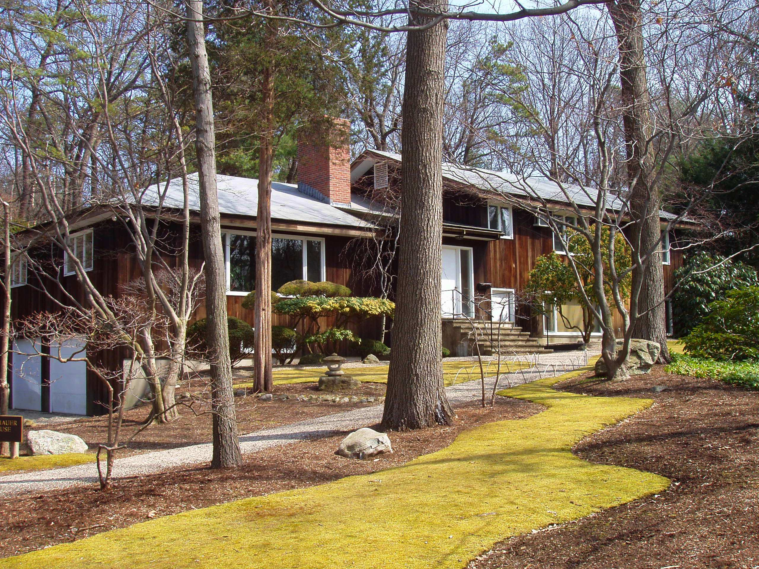 Photograph of the Edwin O. Reischauer Memorial House (now owned by Kodansha Publishers) in Belmont, Massachusetts, USA.